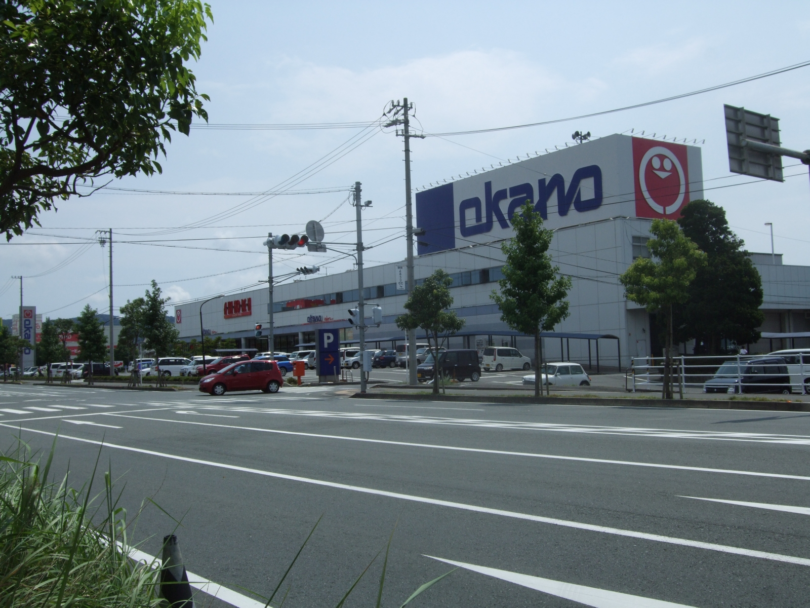 Okano Kakegawa shopping center